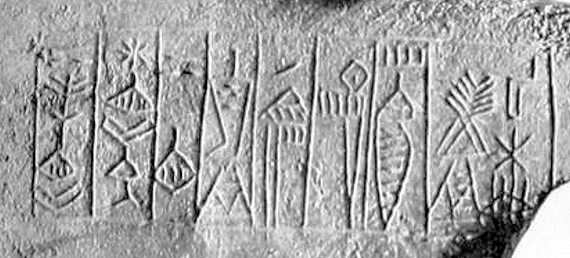 Eshpum votive statue inscription